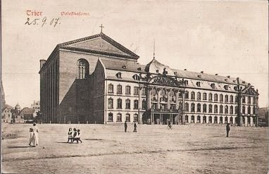 Palace of the Prince-Elector and Constantine Basilica in Trier in or before 1907.